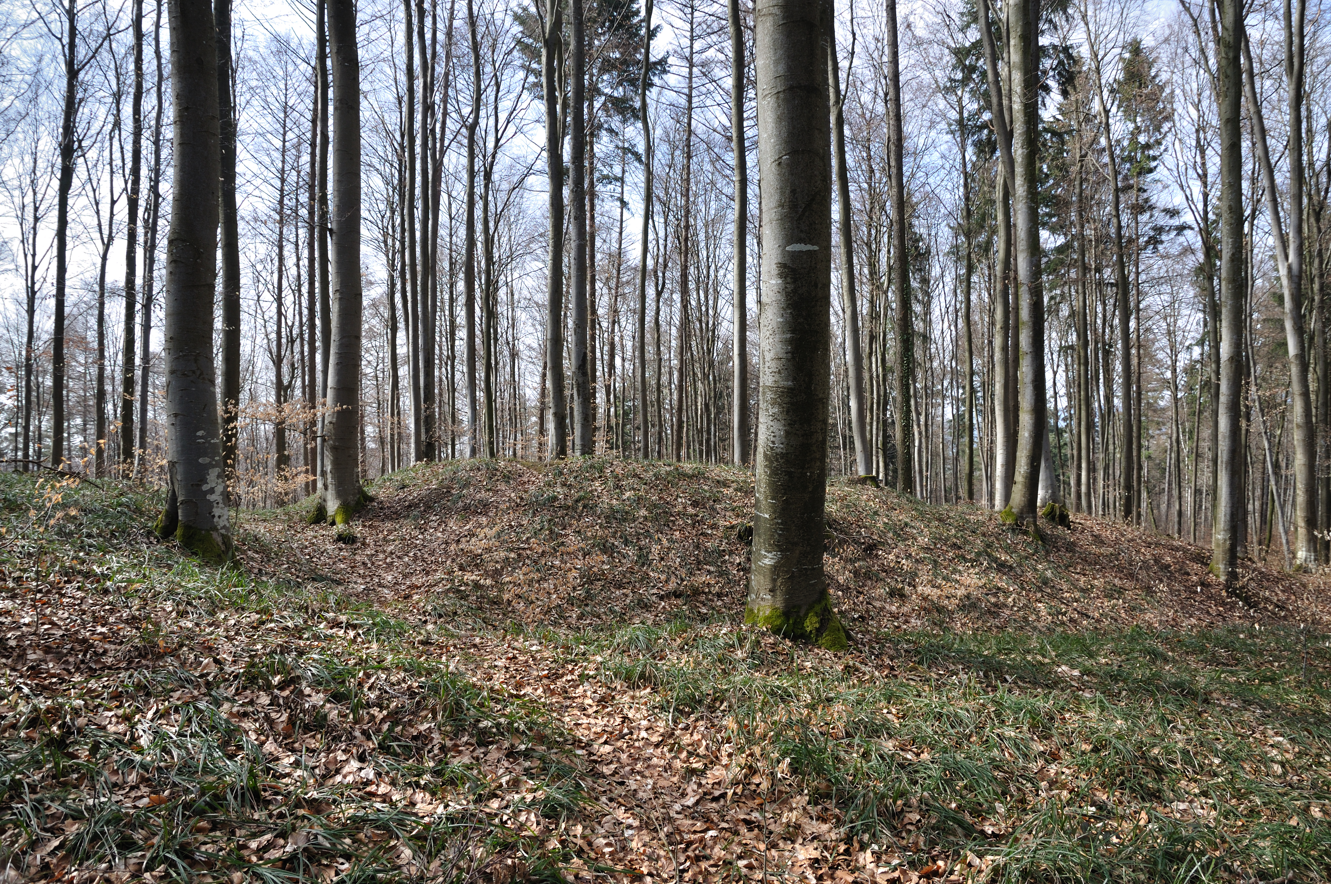 Quadrangular earthworks Heidengestied (square ditched enclosure) near Friedrichshafen-Raderach, county Bodenseekreis, Baden Wurttemberg, Germany